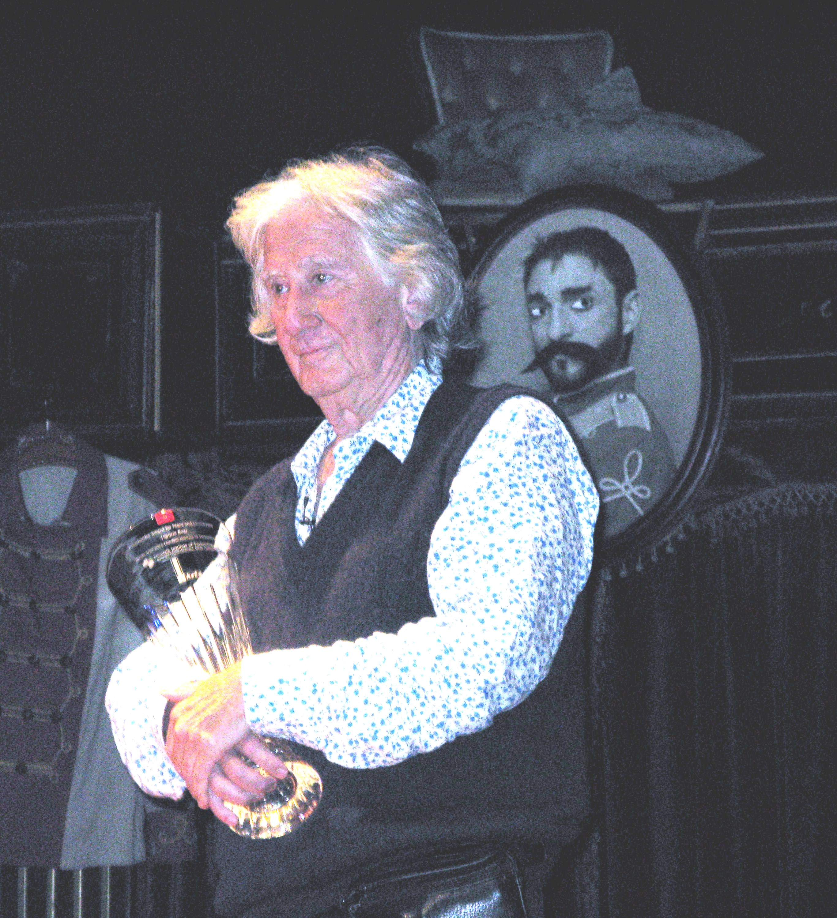 Augusto Boal in the Abbey Theatre (Dublin) receives the 'Crossborder Award for Peace and Democracy'. April 3rd 2008. It was a great talk, amazing to see and listen to the man himself...The day before the Abbey Theatre previews The Burial at Thebes, Seamus Heaney’s version of Sophocles’ Antigone, Augusto Boal will talk about his own life as a theatre director growing up and working in times of political upheaval, military coups, censorship, imprisonment, torture, exile and return. He talks of his work with actors and the training he developed with and for them; his choice of plays which could speak through a censored time; his production of The Plough and The Stars many years ago in Brazil - his love of Shakespeare and his commitment to new writing which can speak to a people of themselves.